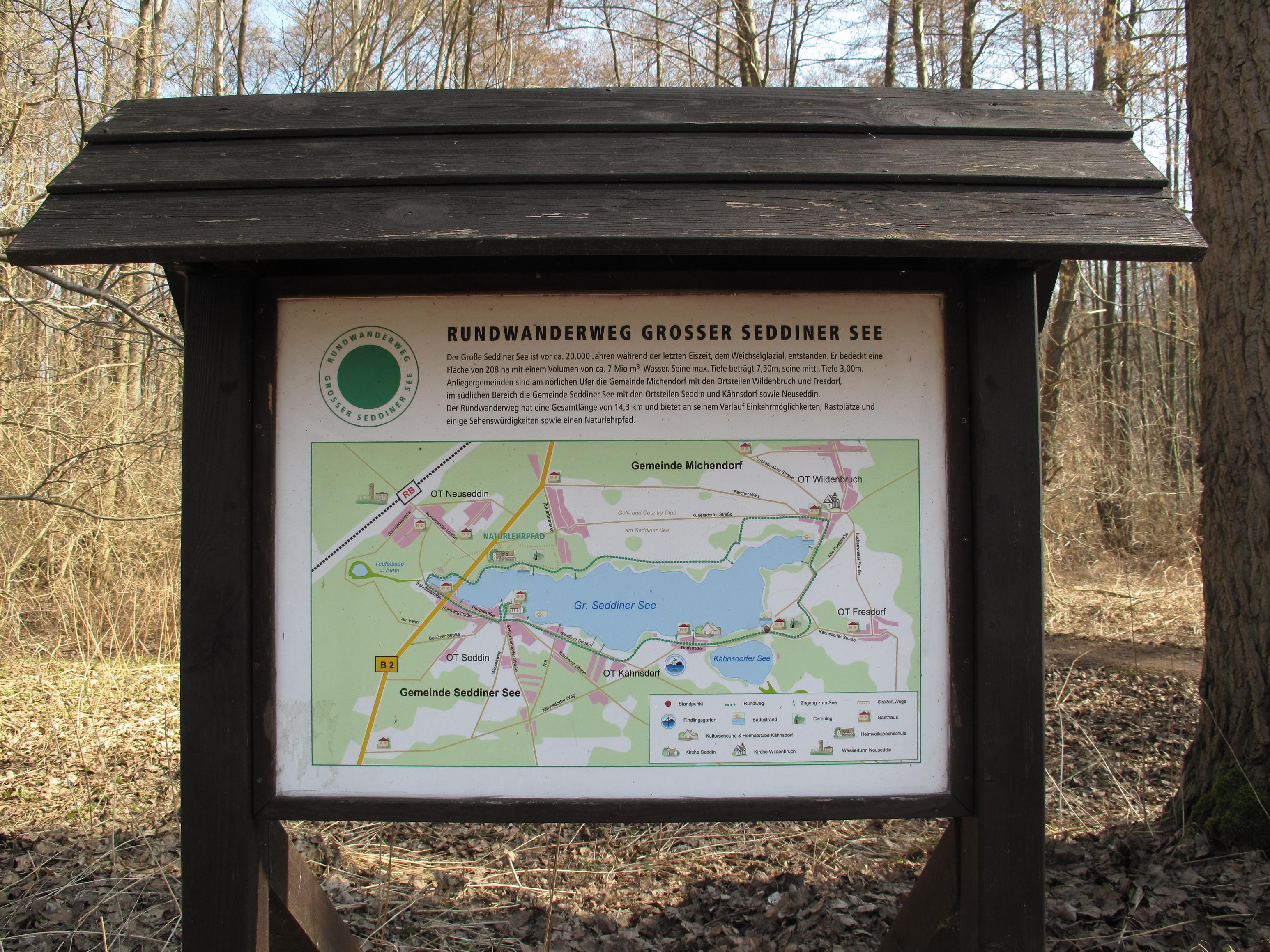 Circular walk and map Großer Seddiner See. The Großer Seddiner See is a glacial lake in the nature park Nuthe-Nieplitz in Germany, Brandenburg, district Potsdam-Mittelmark, and covers 2,18 km². The lake is situated in the municipalities Seddiner See and Michendorf.